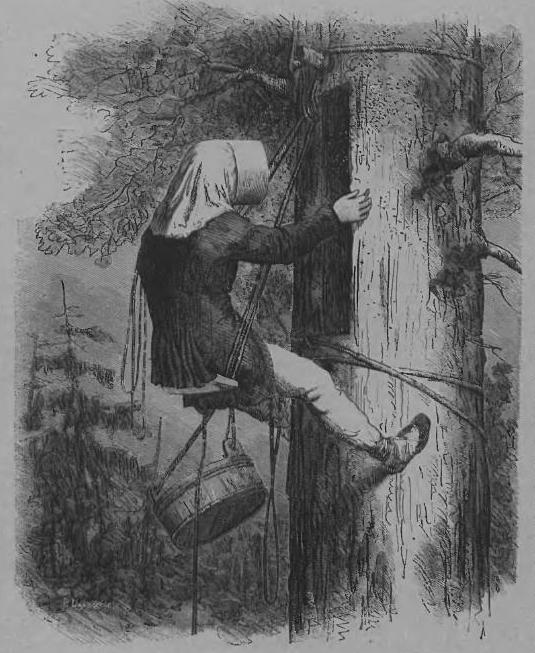 Józef Łapczyński - Wybieranie barci u Kurpiów (1870). Interpretation of traditional beekeeping in region of Kurpie by Józef Łapczyński.